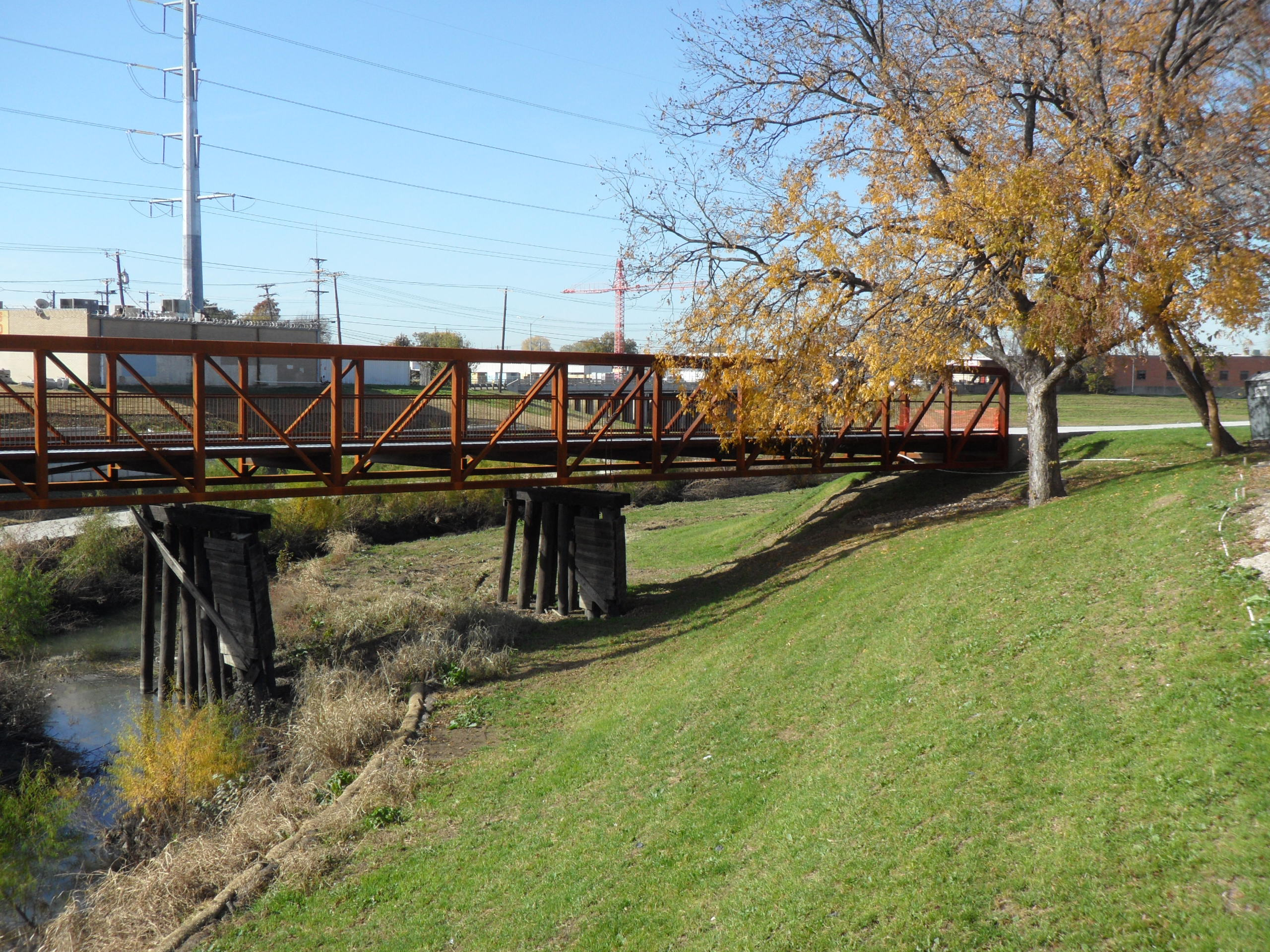 Trinity Strand Trail in Dallas, Texas